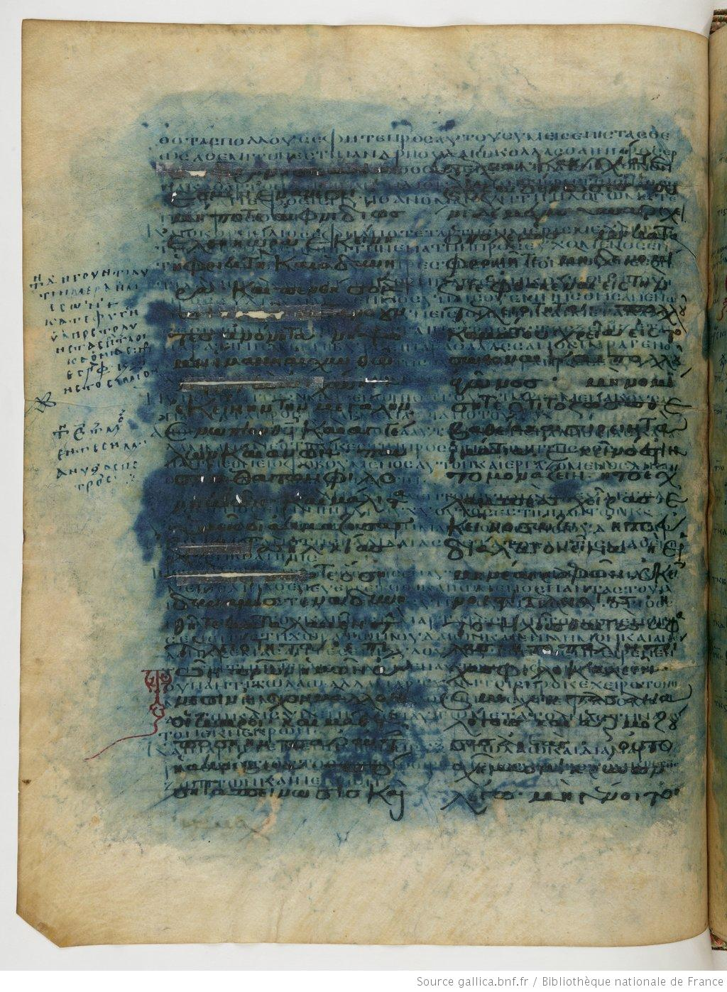 Codex Ephraemi